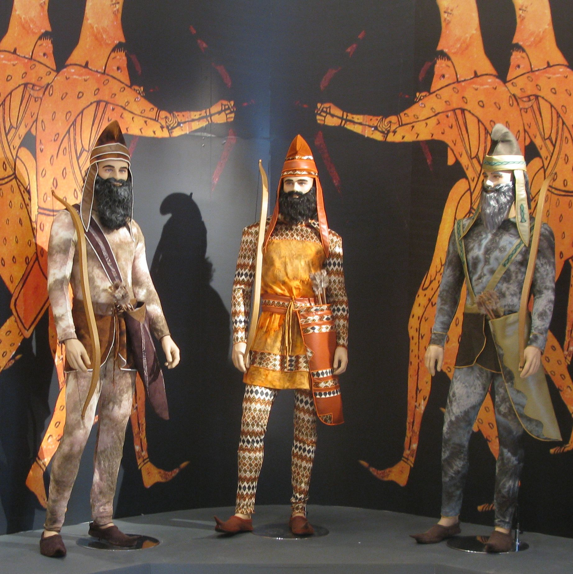 Achaemenids archers. Exhibition "Democracy and the Battle of Marathon" 23 Oct. 2010 - 1 Nov. 2010, Zappeio, Athens, Greece.